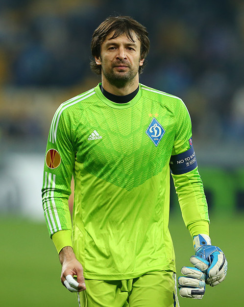 UEFA Europa League 2014-15 1/8 Final NSK Olimpiyskyi - Kyiv 19/03/2015 - 19:00CET (20:00 local time) Round of 16, Second leg Dynamo Kyiv - Everton - 5:2 Goals: Yarmolenko 21 Lukaku 29 Teodorczyk 35 Miguel Veloso 37 Gusev 56 Antunes 76 Jagielka 82 Aggregate: 6-4